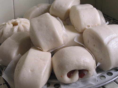 Classic white mantouClassic white mantou